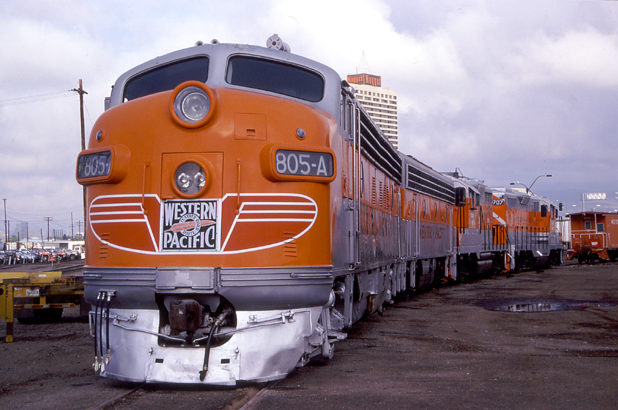 photo by Eugene Vicknair, 2004